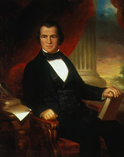 Andrew Johnson (29 Dec 1808 - 31 Jul 1875) See more items in Catalog of American Portraits